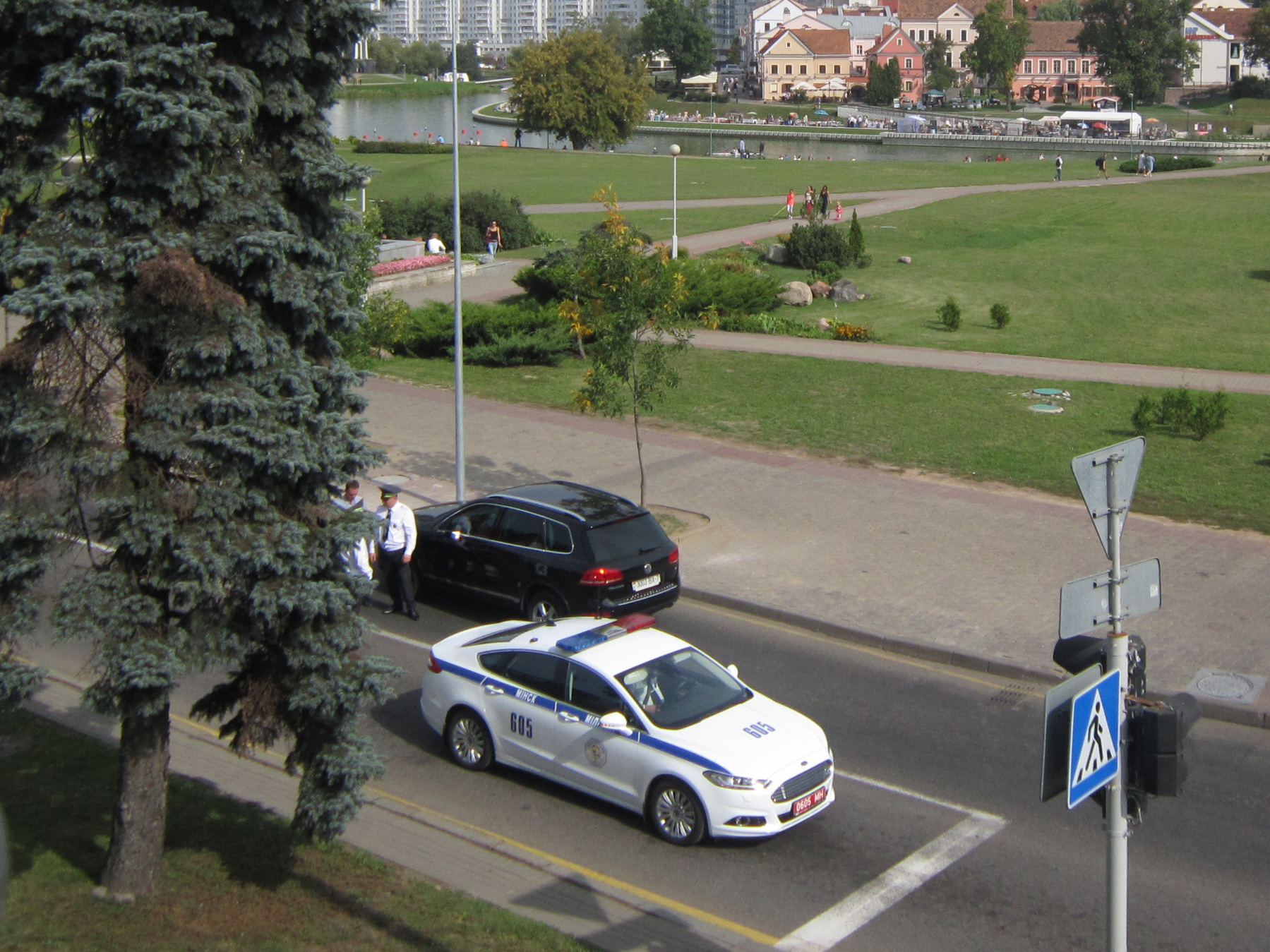 New police car in Minsk No. 605